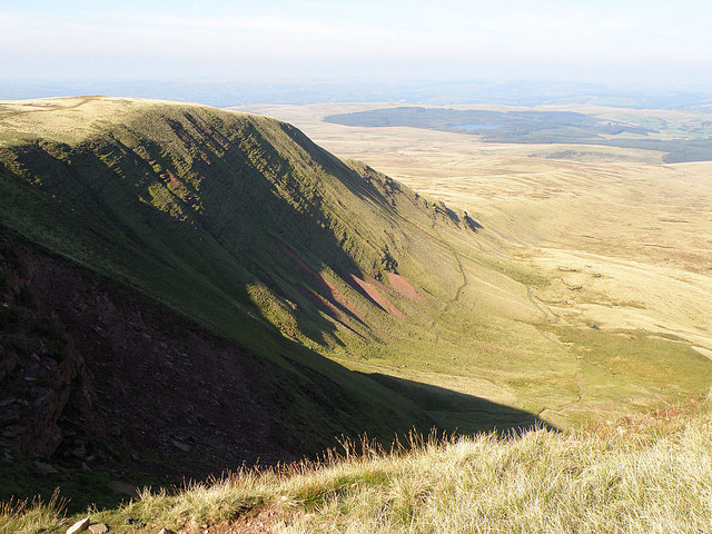 Fan Foel The slopes of Fan Foel as seen from Twr y Fan Foel.